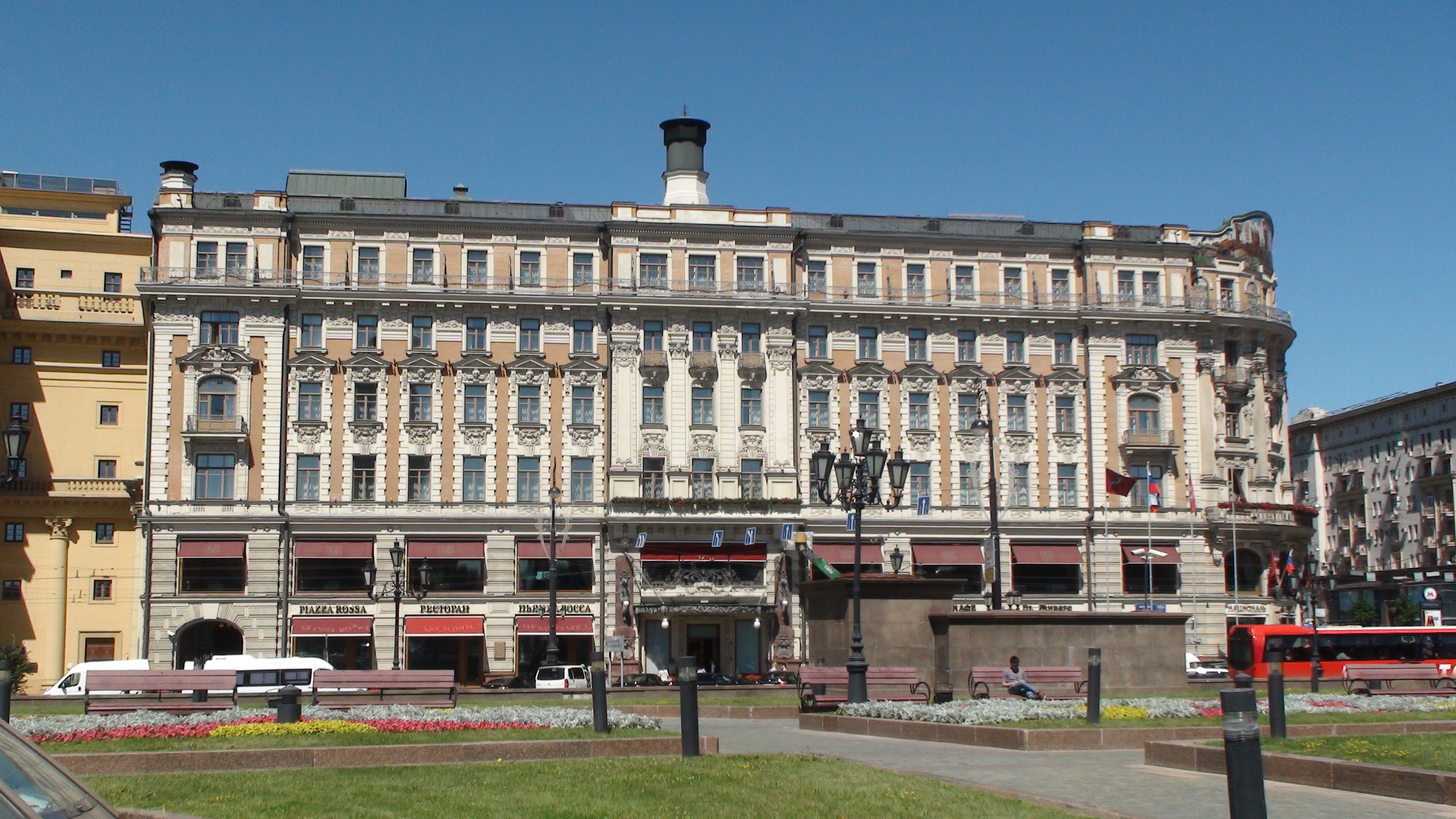 Гостиница Националь